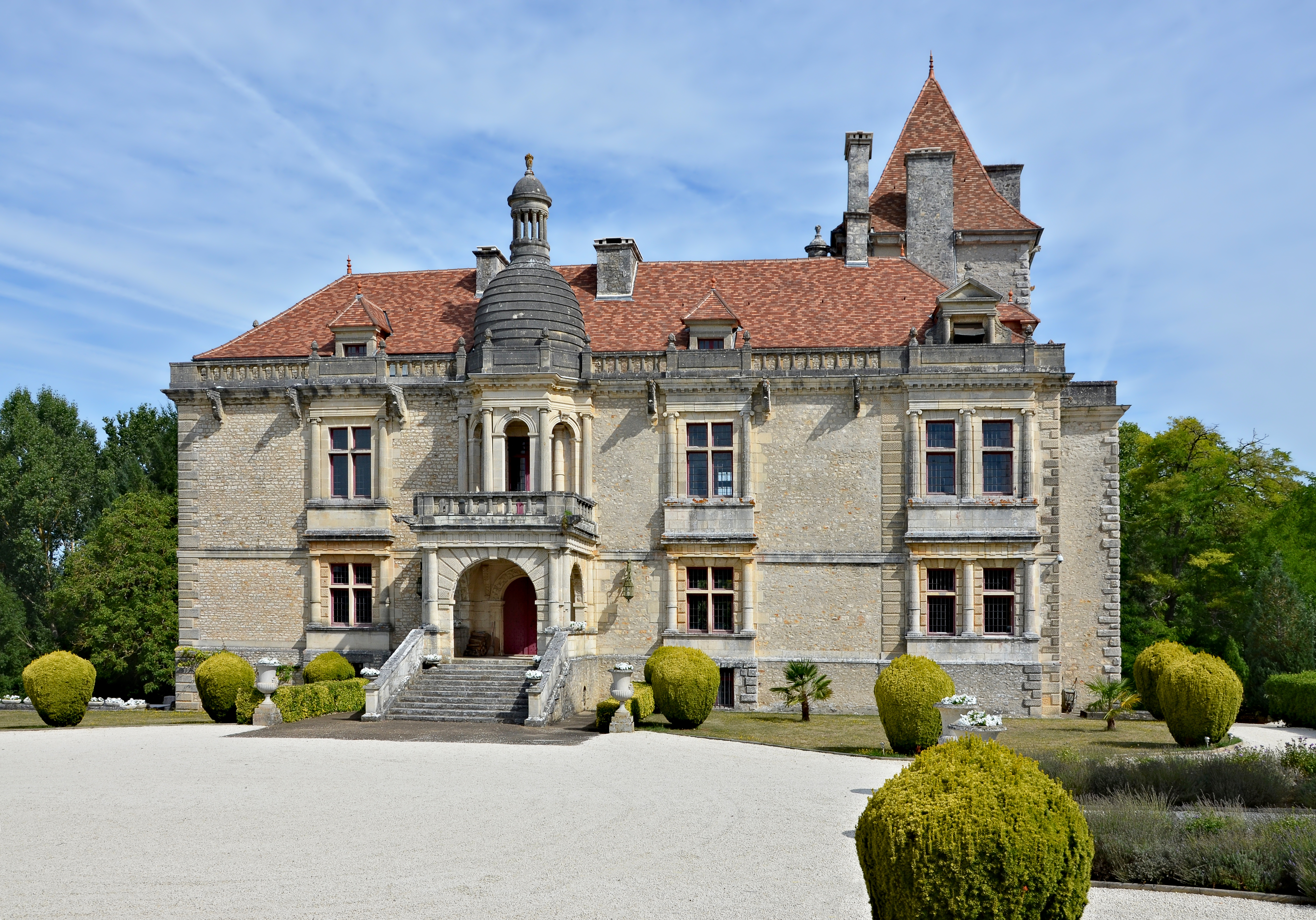 Manor of the Château-neuf (ca 1560 and ca 1900), Marthon, Charente,France.